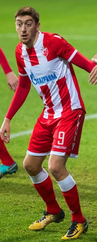 07.02.2018. Турция, Анталия, стадион «Мардан». Вторые зимние «Газпром» — тренировочные сборы: товарищеский матч «Зенит» — «Црвена Звезда».